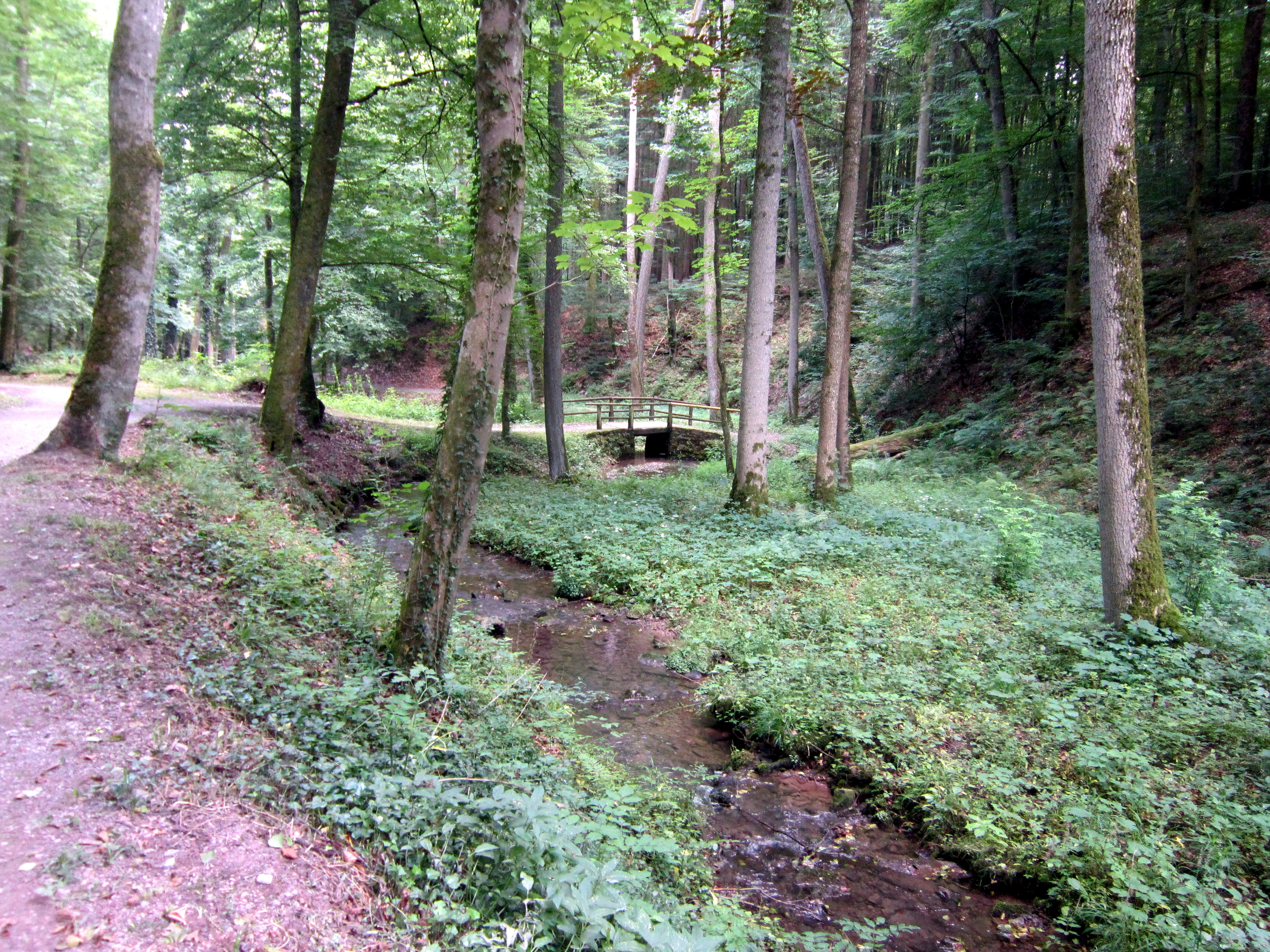 The Kaskadental in Hausen, a quarter of the German spa town of Bad Kissingen in Lower Franconia (Bavaria). The Kaskadental is a parkway built in 1767 and supplied with artifical cascades.